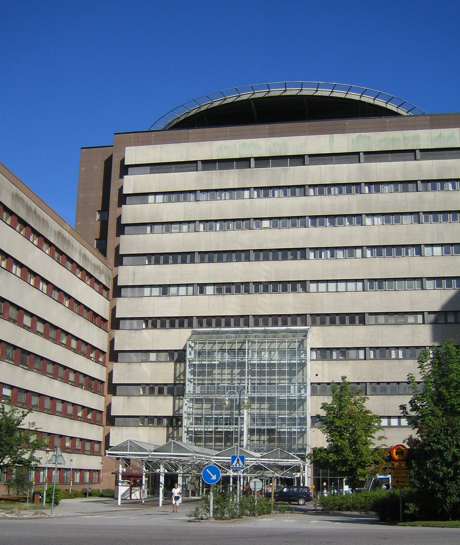 The University hospital of Lund, Sweden.